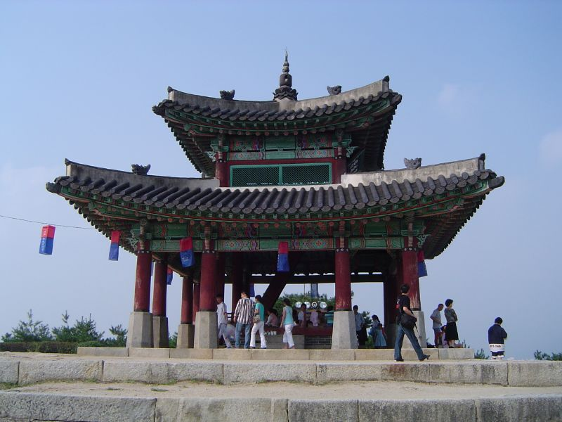 The command post.